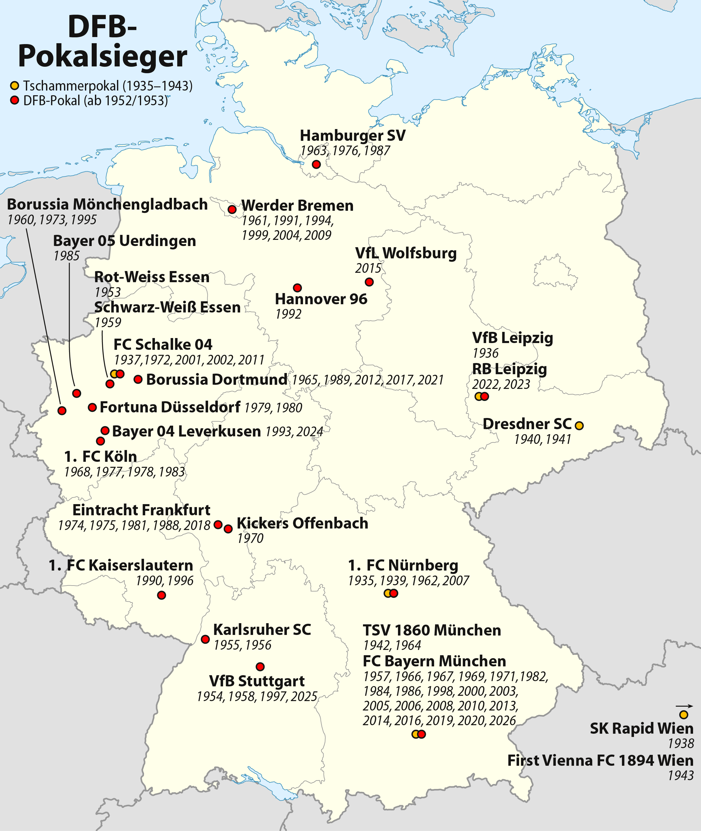 Map of the winners of the DFB-Pokal